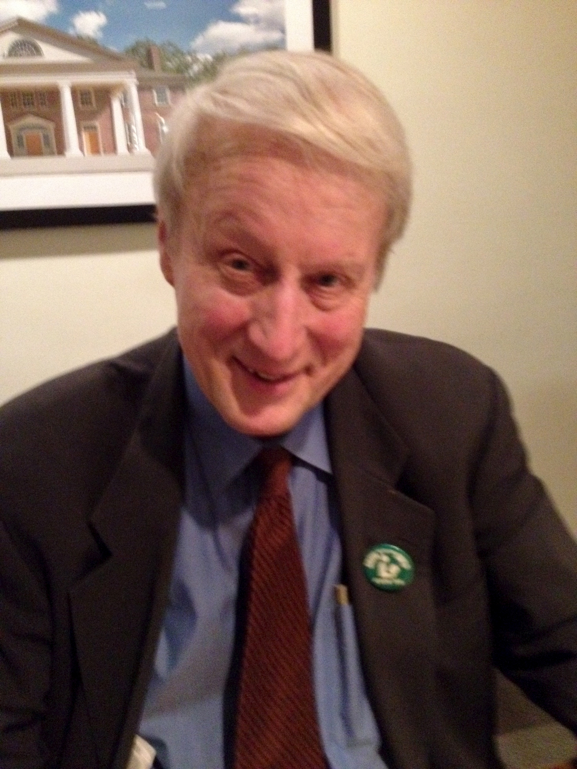 Hedrick Smith, signing his book Who Stole the American Dream? after a talk at the Library of Congress, May 29, 2014.